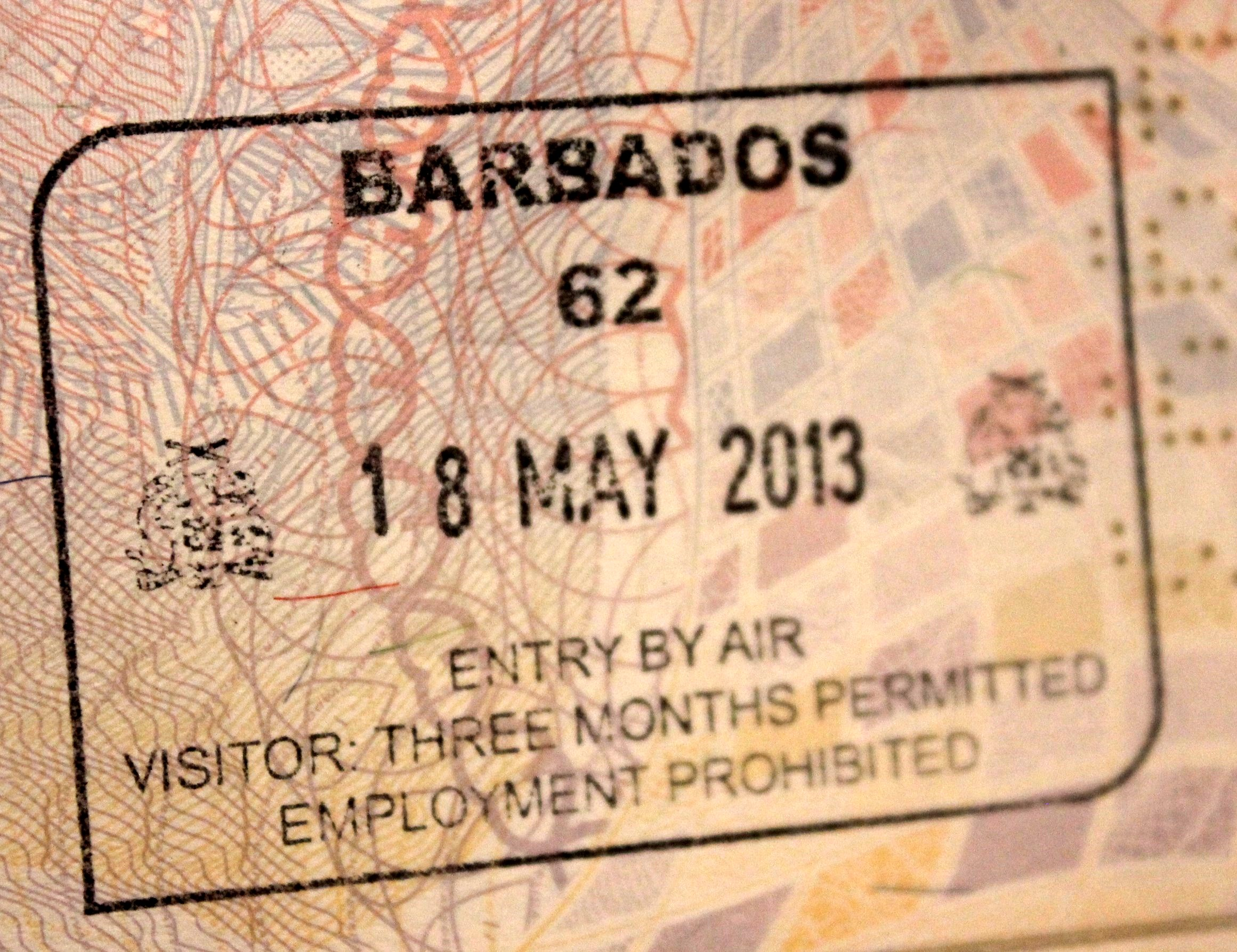 Barbados Entry Stamp - Bridgetown International Airport/BGI